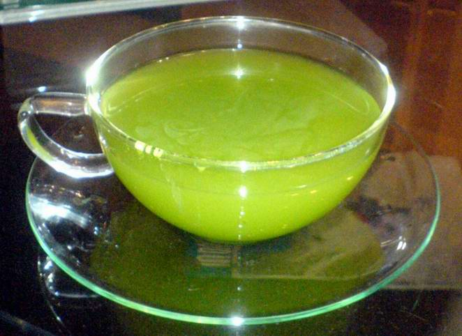 Green tea